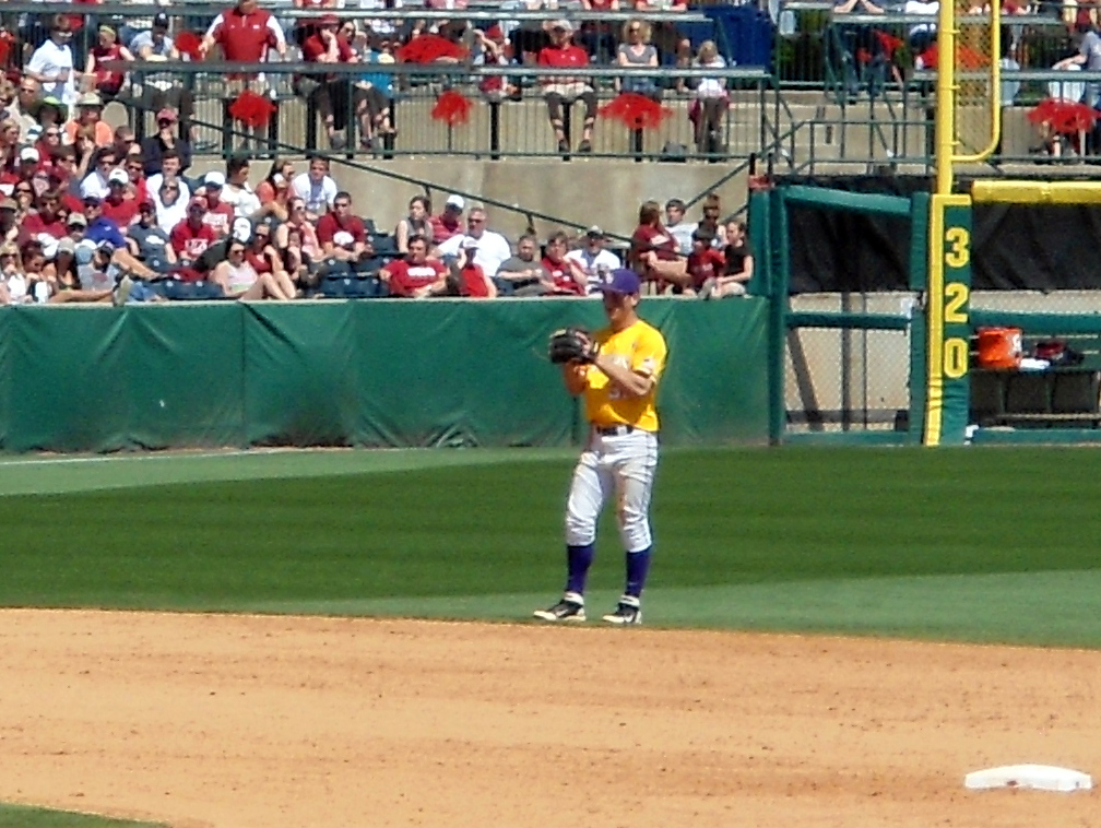 LSU shortstop Alex Bregman plays in Baum Stadium against Arkansas